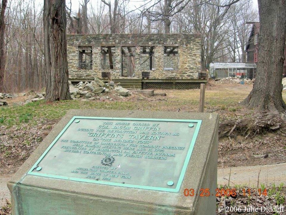 Griffin's Tavern 25 March 2006. During the visit by Col Jacob Griffin descendants Eric Wooster Diddell and his son, James Freelan Diddell.